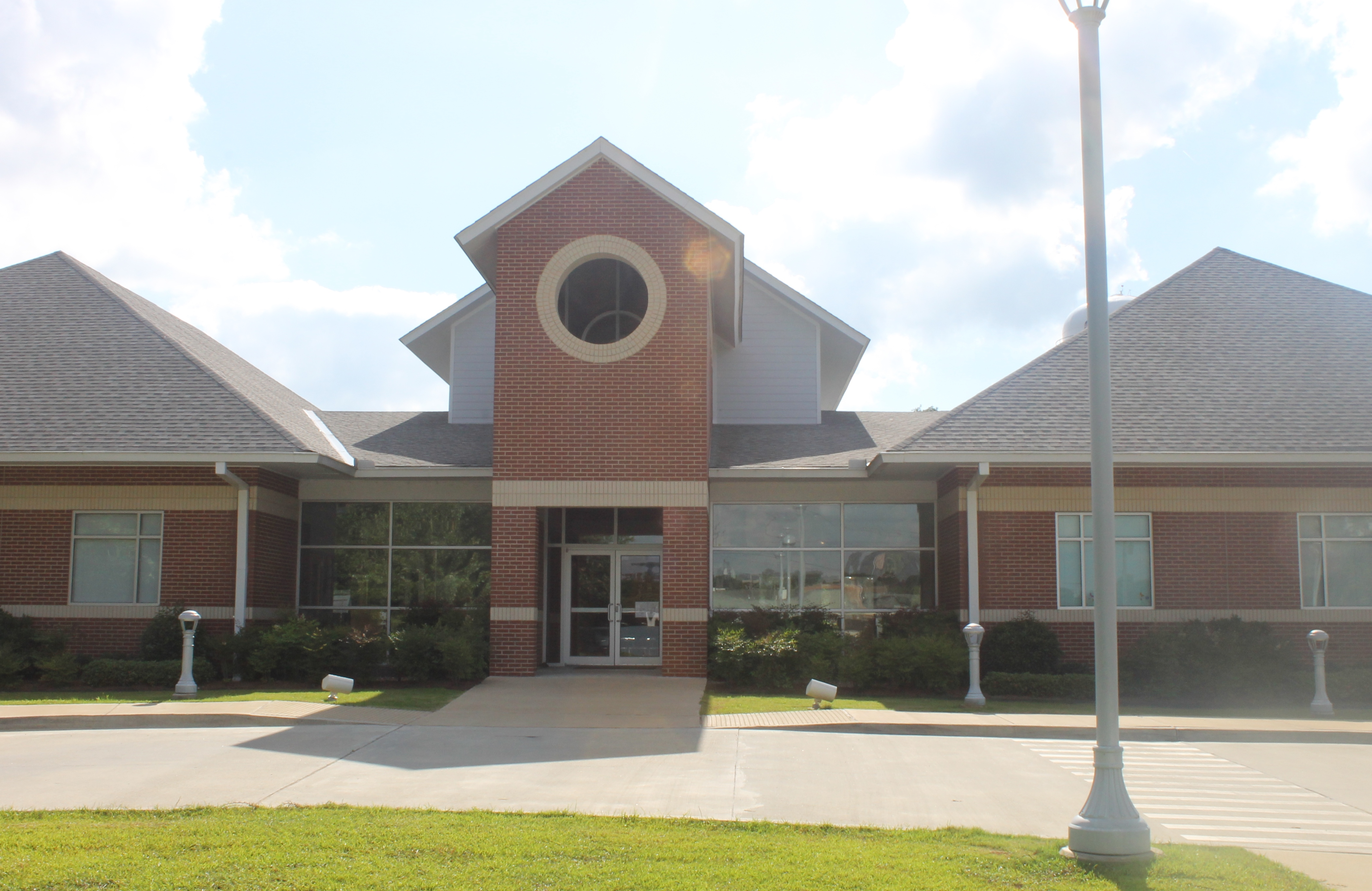 Bienville Parish annex building in Ringgold, LA